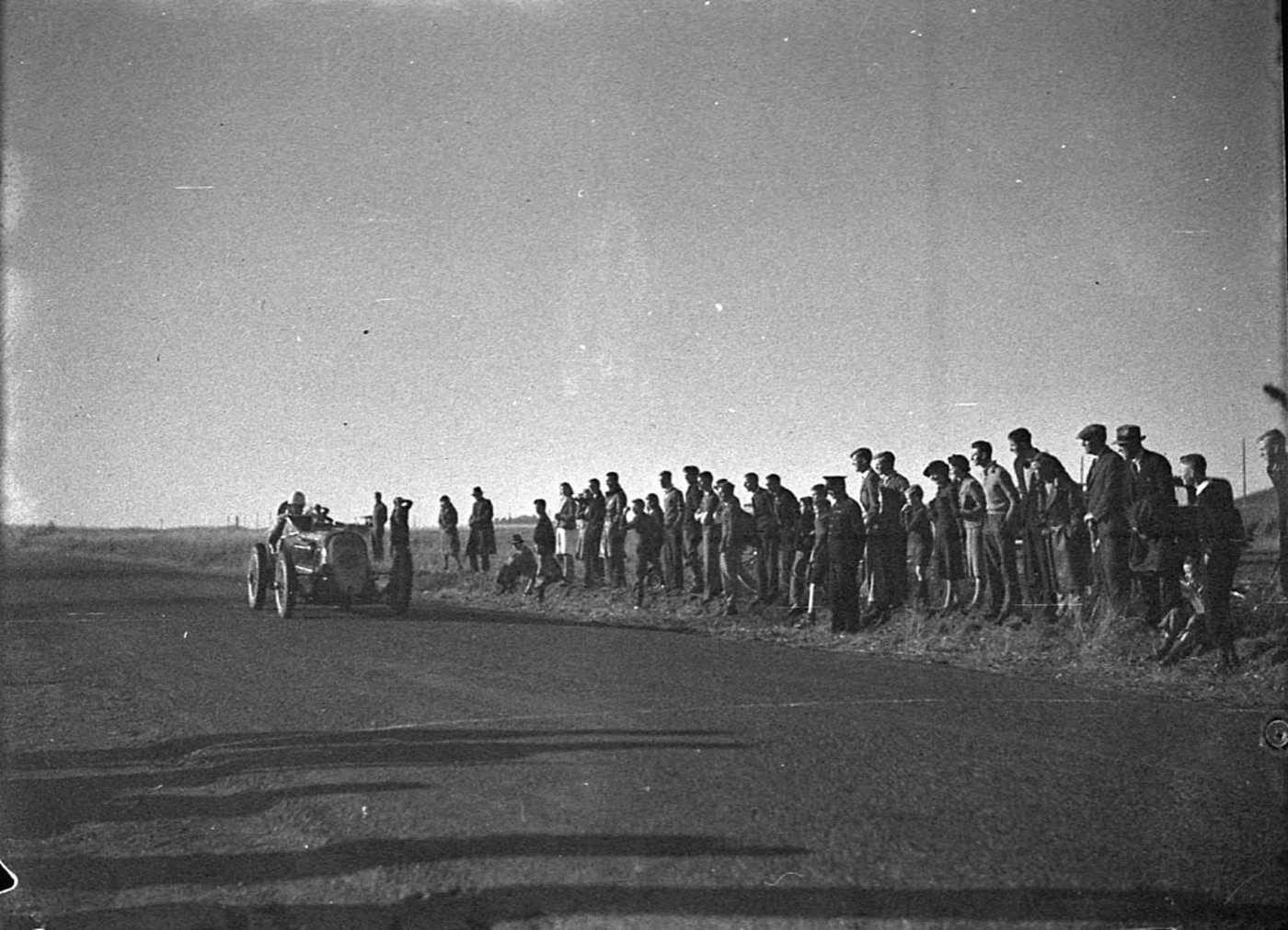 Midget racing cars, Canberra